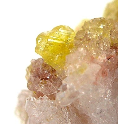 Sklodowskite, Gypsum Locality: Animas Mine, Francisco Portillo, West Camp, Santa Eulalia District, Municipio de Aquiles Serdán, Chihuahua, Mexico (Locality at ) Size: 6.6 x 3.8 x 2.1 cm. Eye-visible, large-for-species, GEMMY, crystals of sklodowskite perched on contrasting matrix of gypsum. Crystals are 2-4 mm in size with a bright neon yellow color. Ex. Martin Zinn Collection.